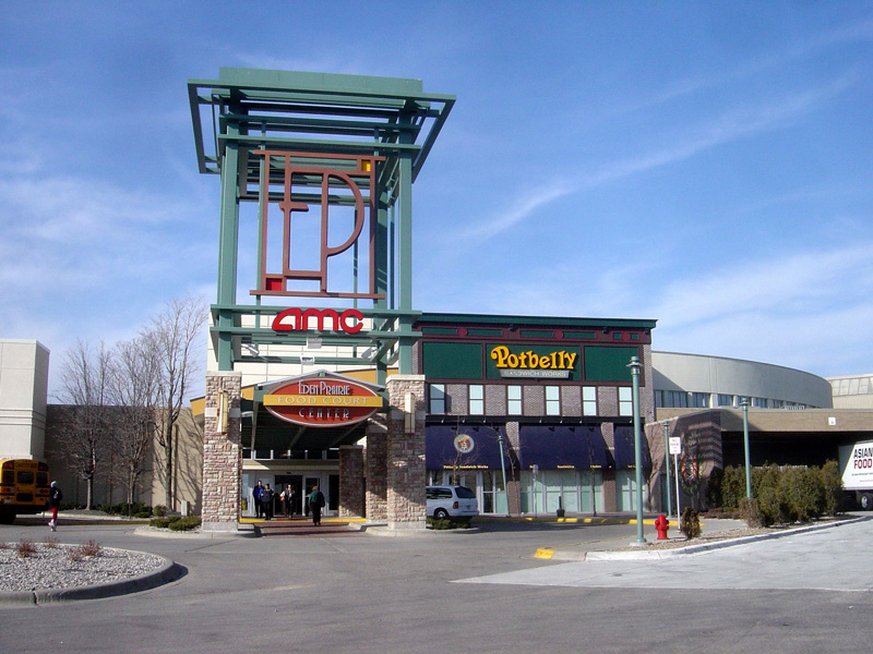 Eden Prairie Center Mall in Eden Prairie, Minnesota. Photo taken by Bobak Ha'Eri, on November 16, 2006. Please observe license and properly cite in use outside Wikipedia.